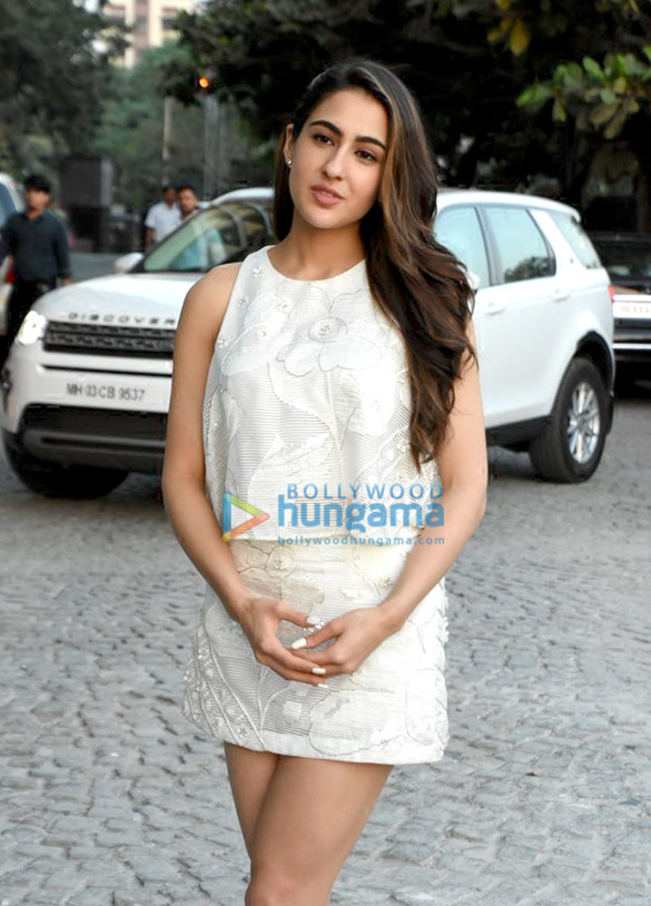 Sara Ali Khan snapped in Mumbai